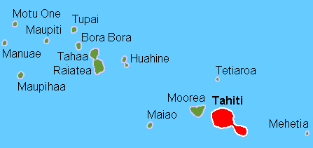 Location of Tahiti within Society Islands, French Polynesia